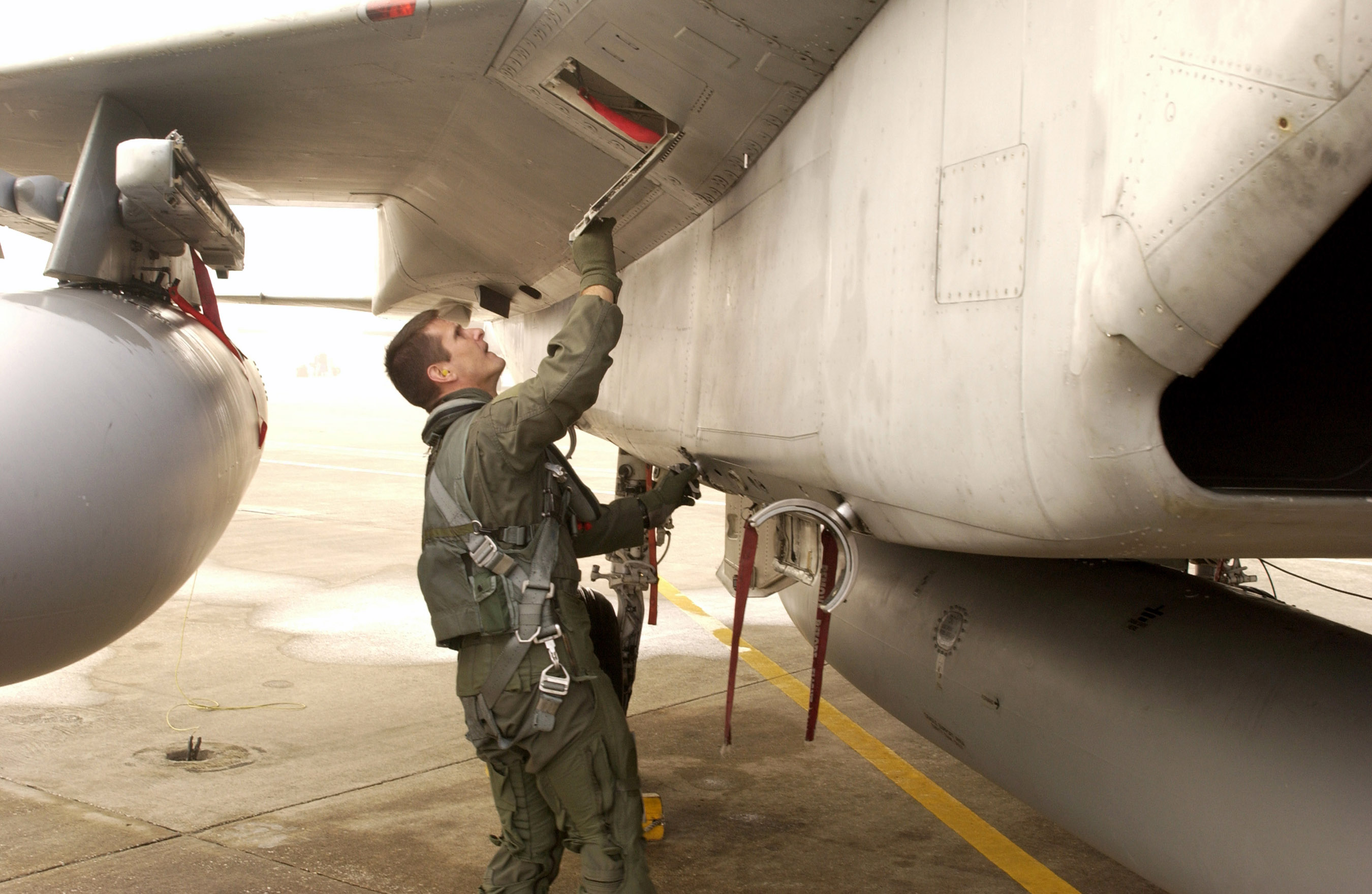 JACKSONVILLE AIR NATIONAL GUARD BASE, Fla. (AFPN) -- Maj. Chris Bembenick performs a pre-flight inspection on an F-15 Eagle before a morning launch here Jan. 22. Major Bembenick is with the 125th Fighter Wing. The wing is participating in an operational readiness exercise to help ensure the unit is capable of deploying personnel and equipment safely and efficiently. (U.S. Air Force photo by Master Sgt. Larry Show)